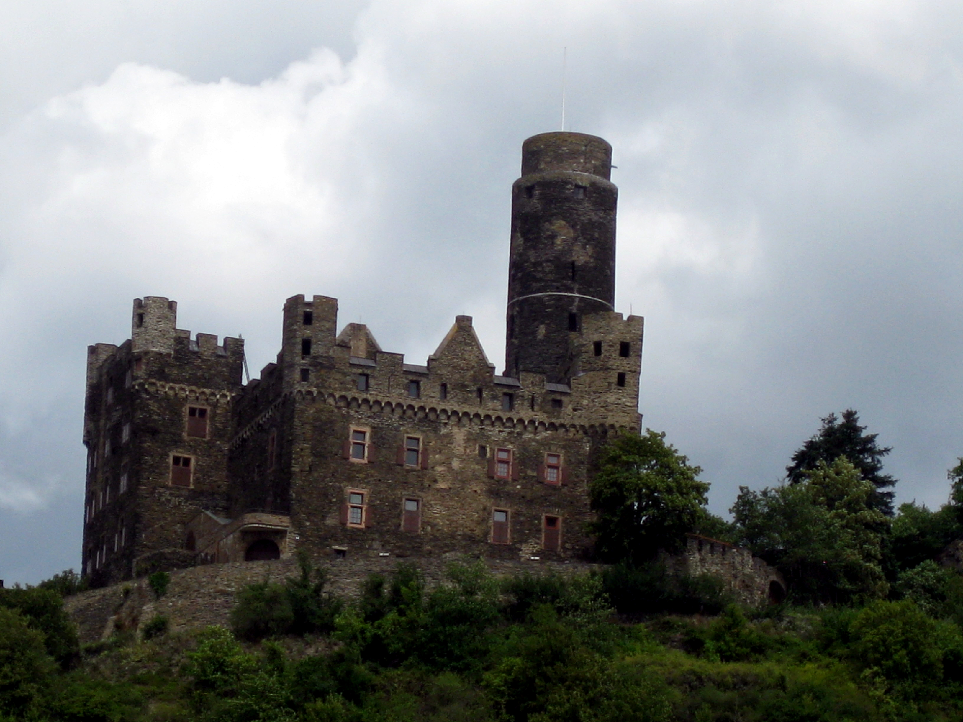 Maus Castle from the Rhine River, Germany